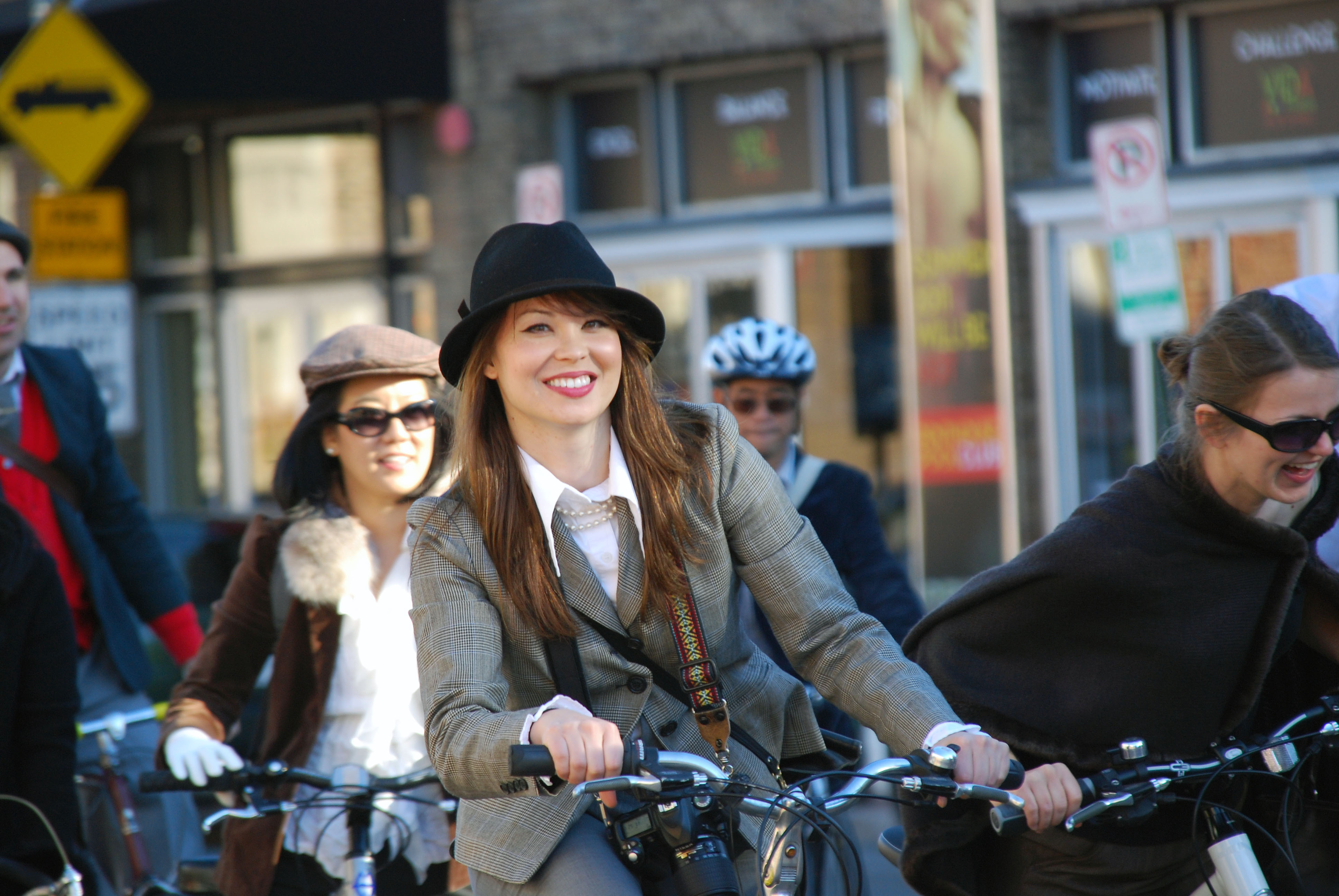 Riding pretty